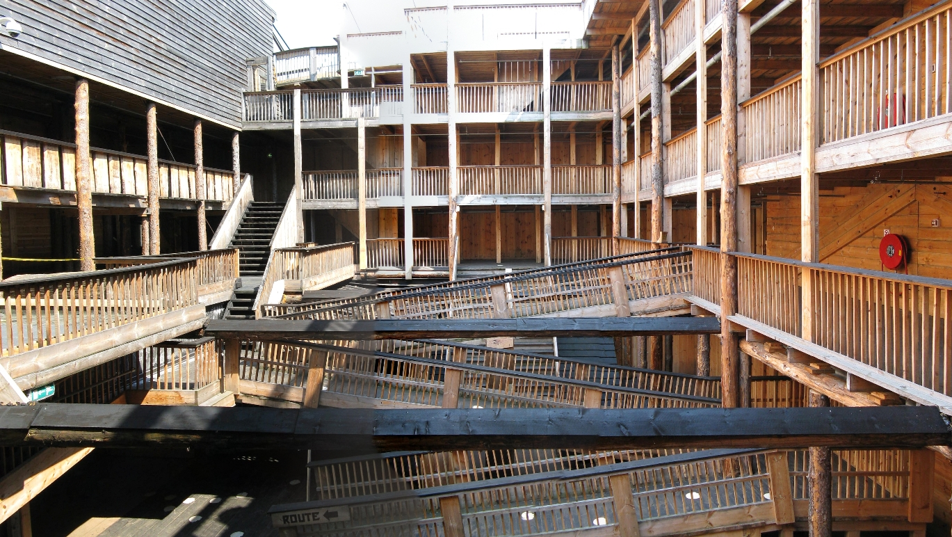 Big Ark, Gallery